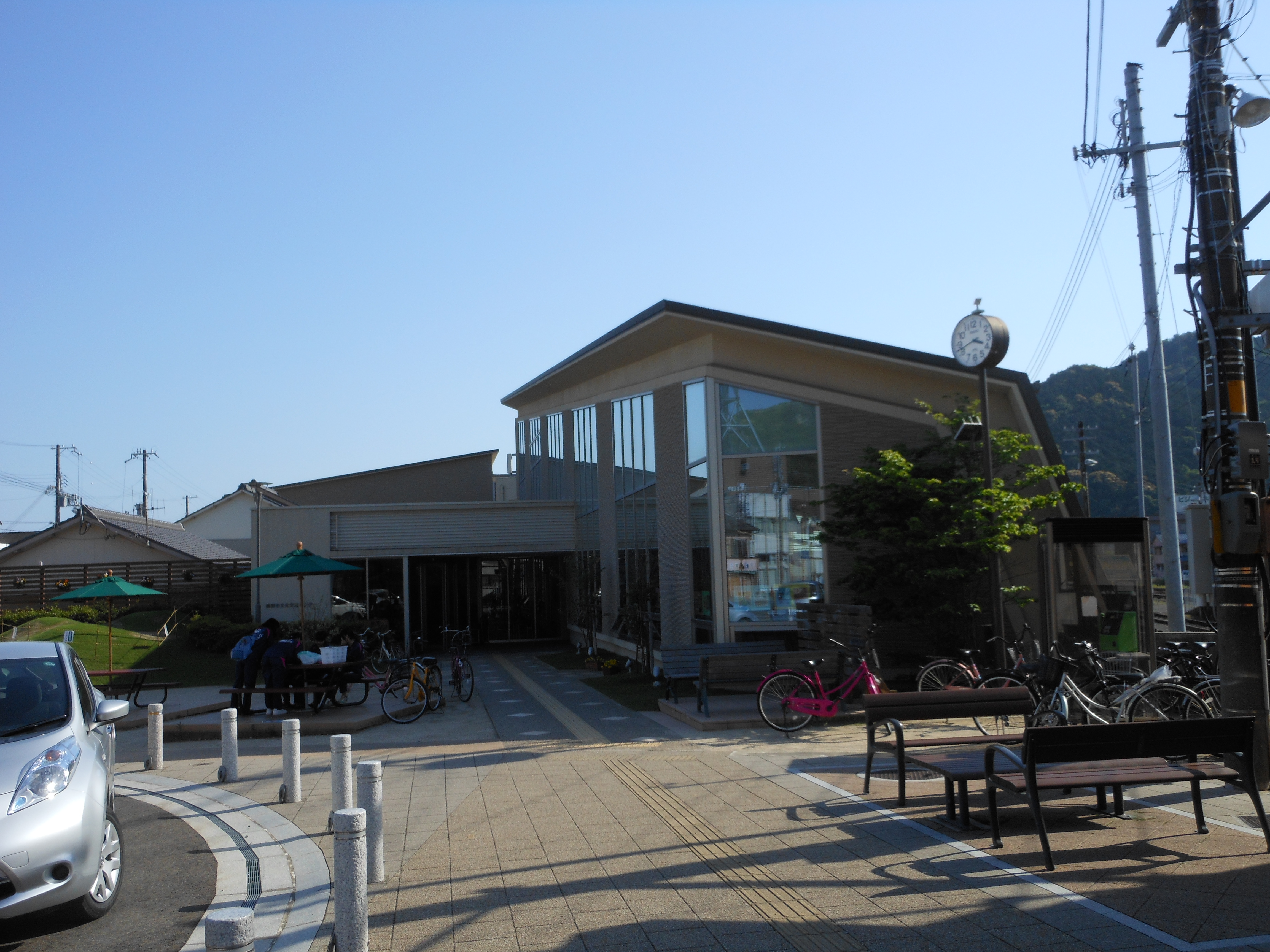 This is the Kumano City Cultural Exchange Center in Kumano, Mie, Japan. This building has Kumano Municipal Library.